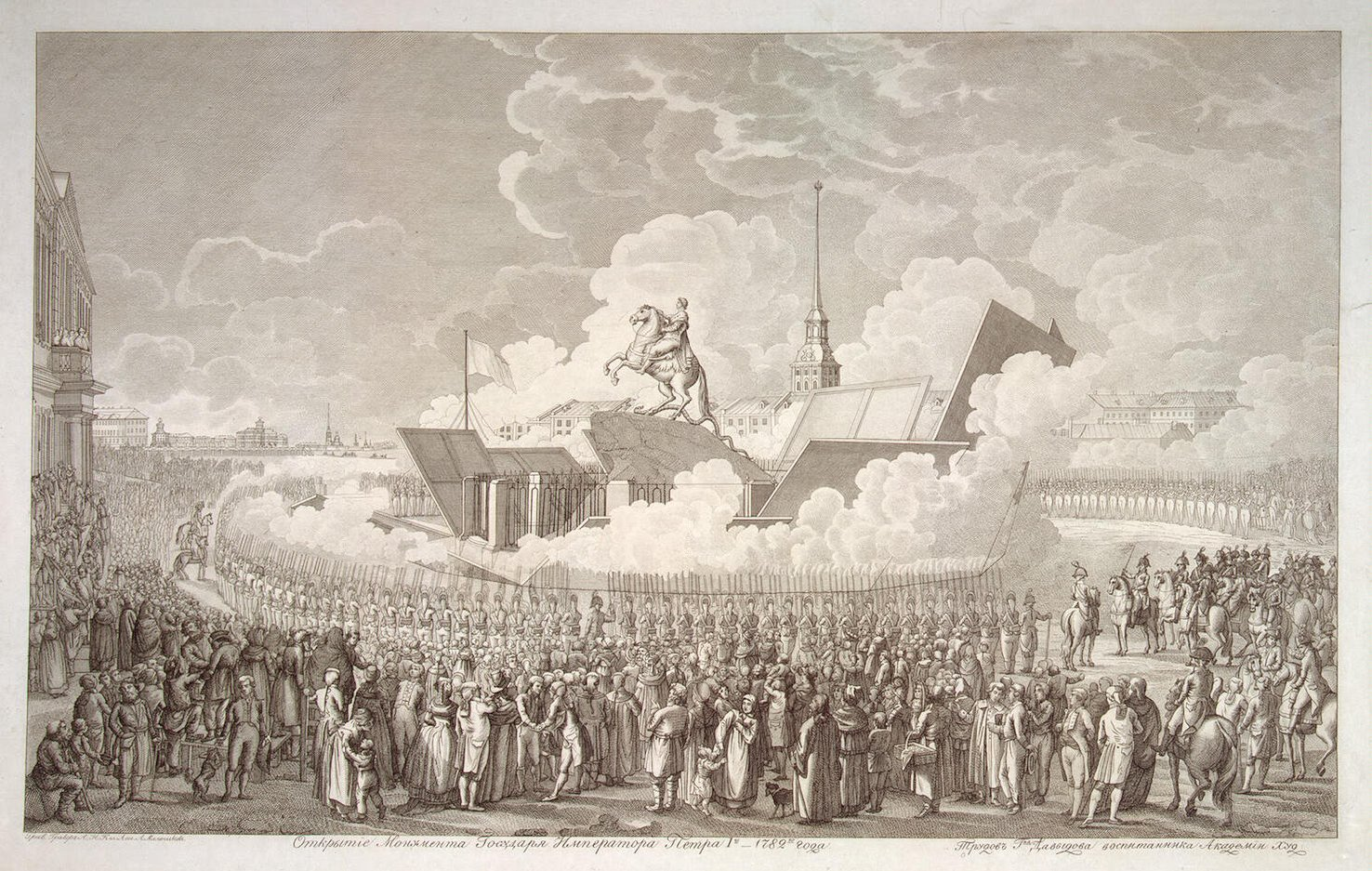 Opening of the Monument to Peter the Great on Senate Square, St. Petersburg. Line-engraving, 65x83.7 cm. State Hermitage.